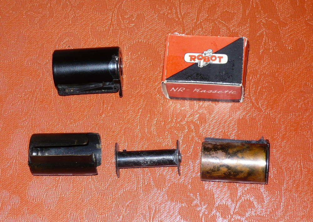 Robot NR cassette